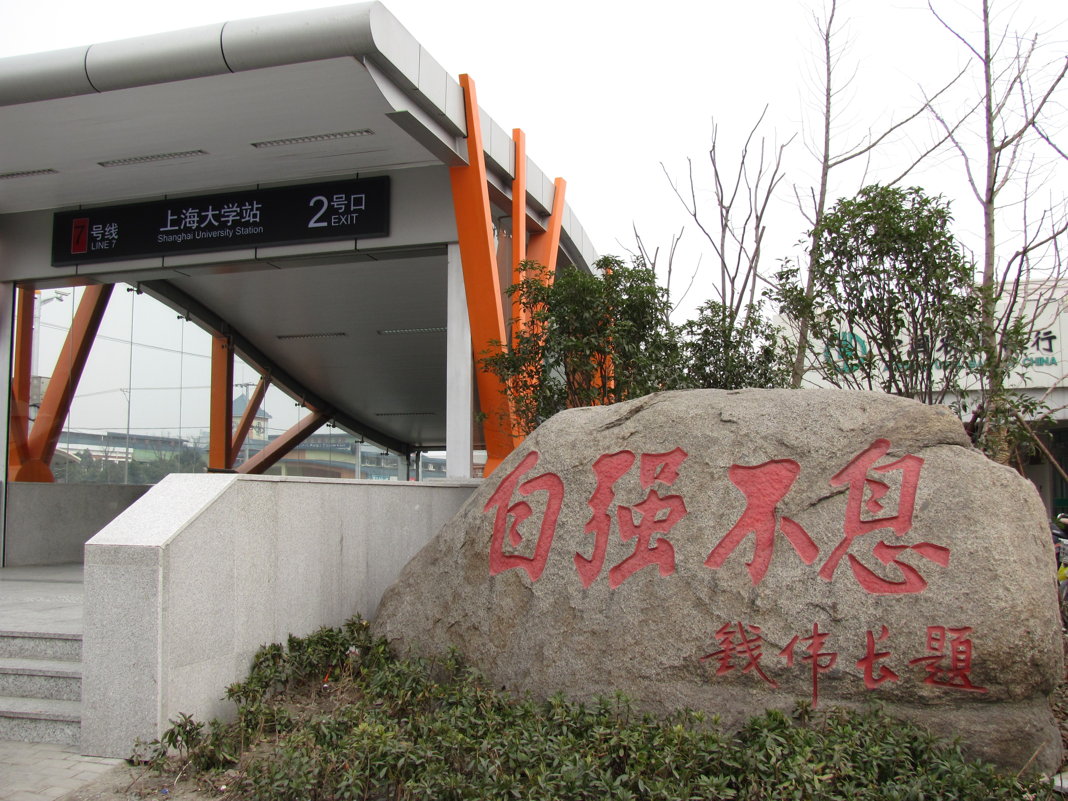 The Second Entrance of The Shanghai University Station Line7 Shanghai Metro